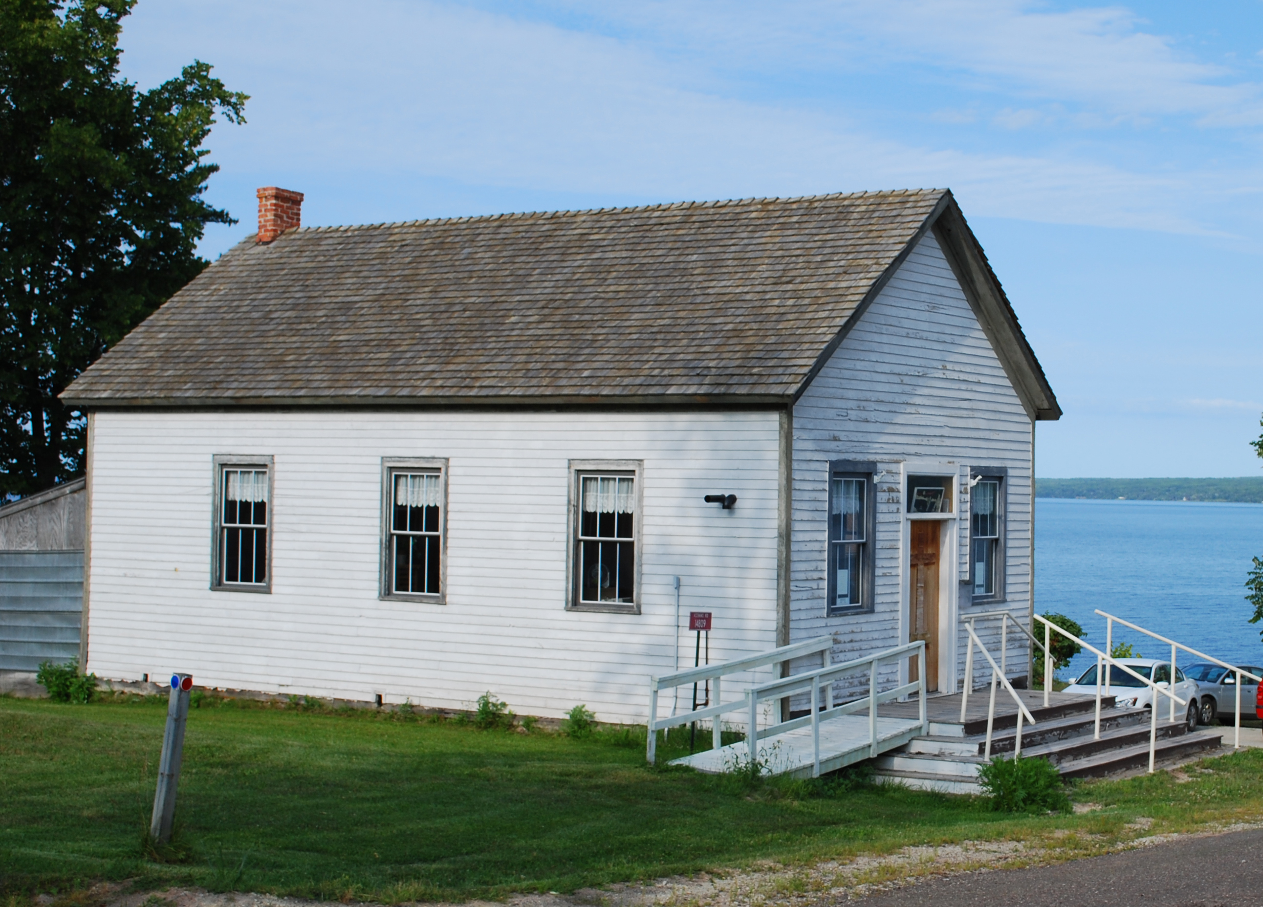 Assinins street scene